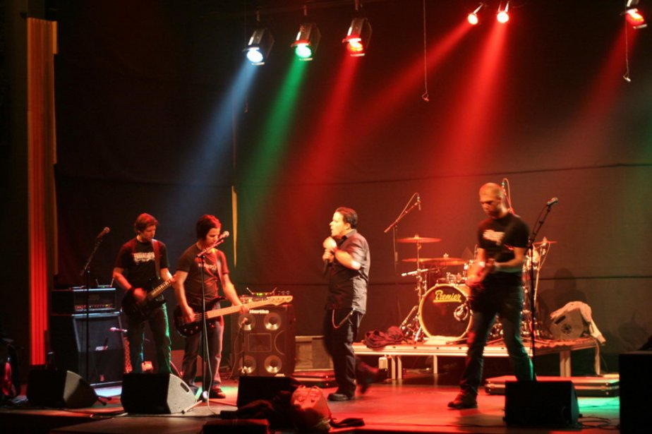 Photo taken by Joakim "gaijin" Årbro, rights released for purpose of Wikipedia